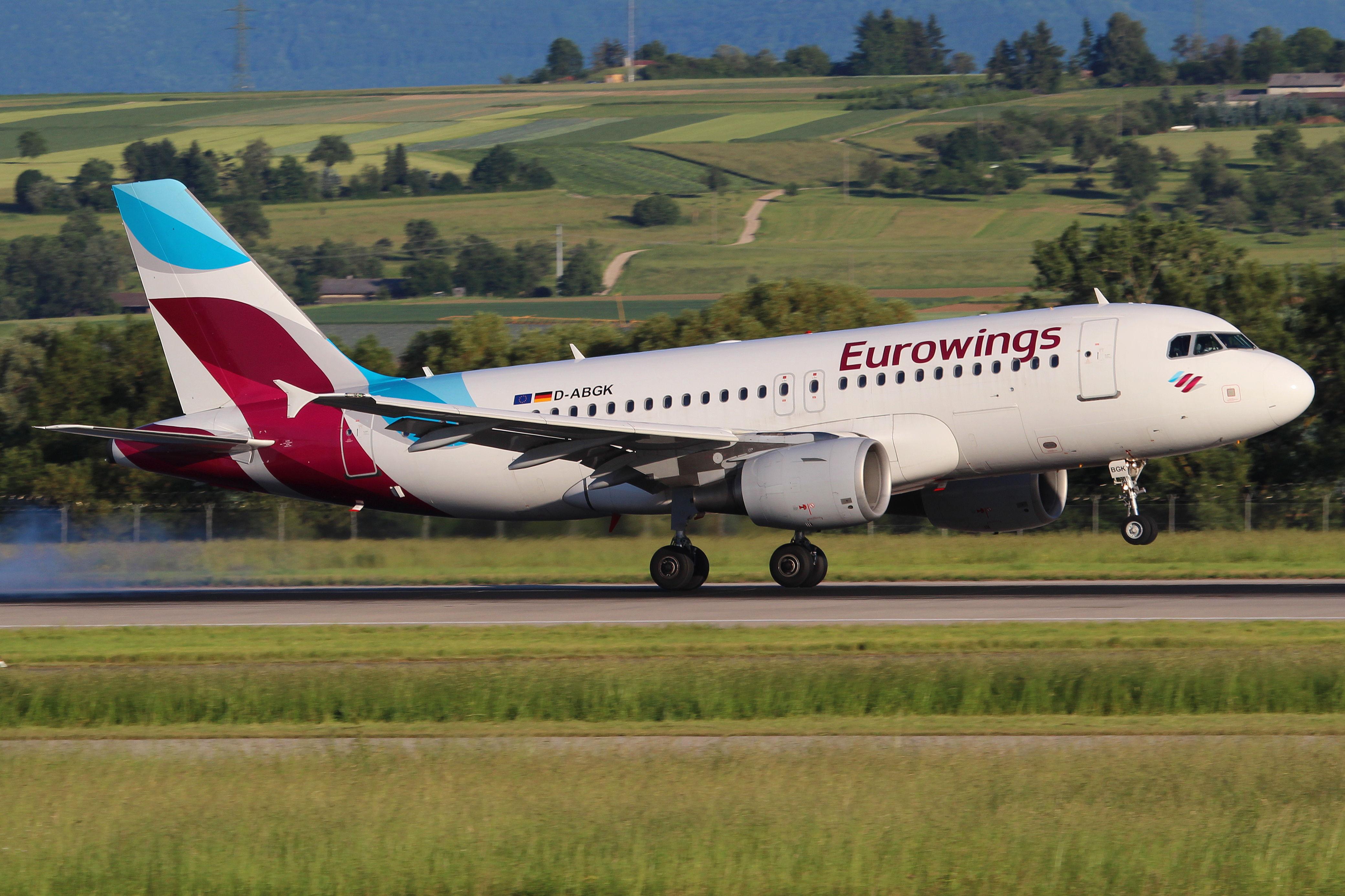 Eurowings Airbus A319 at Stuttgart Airport.